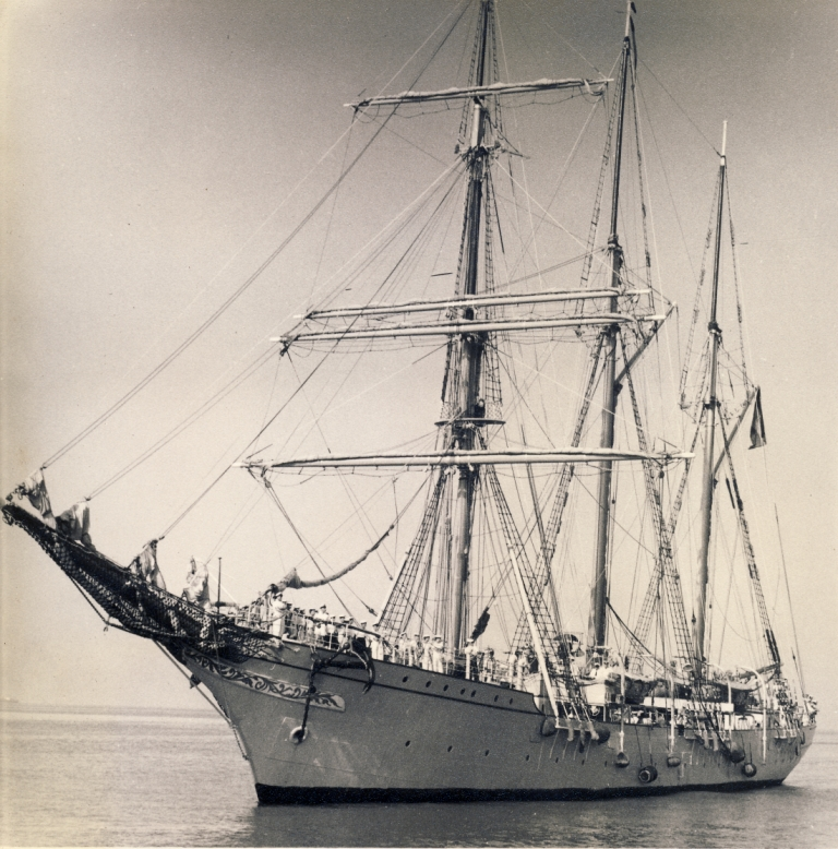 Belgian barquentine. Port of Spain Trinidad